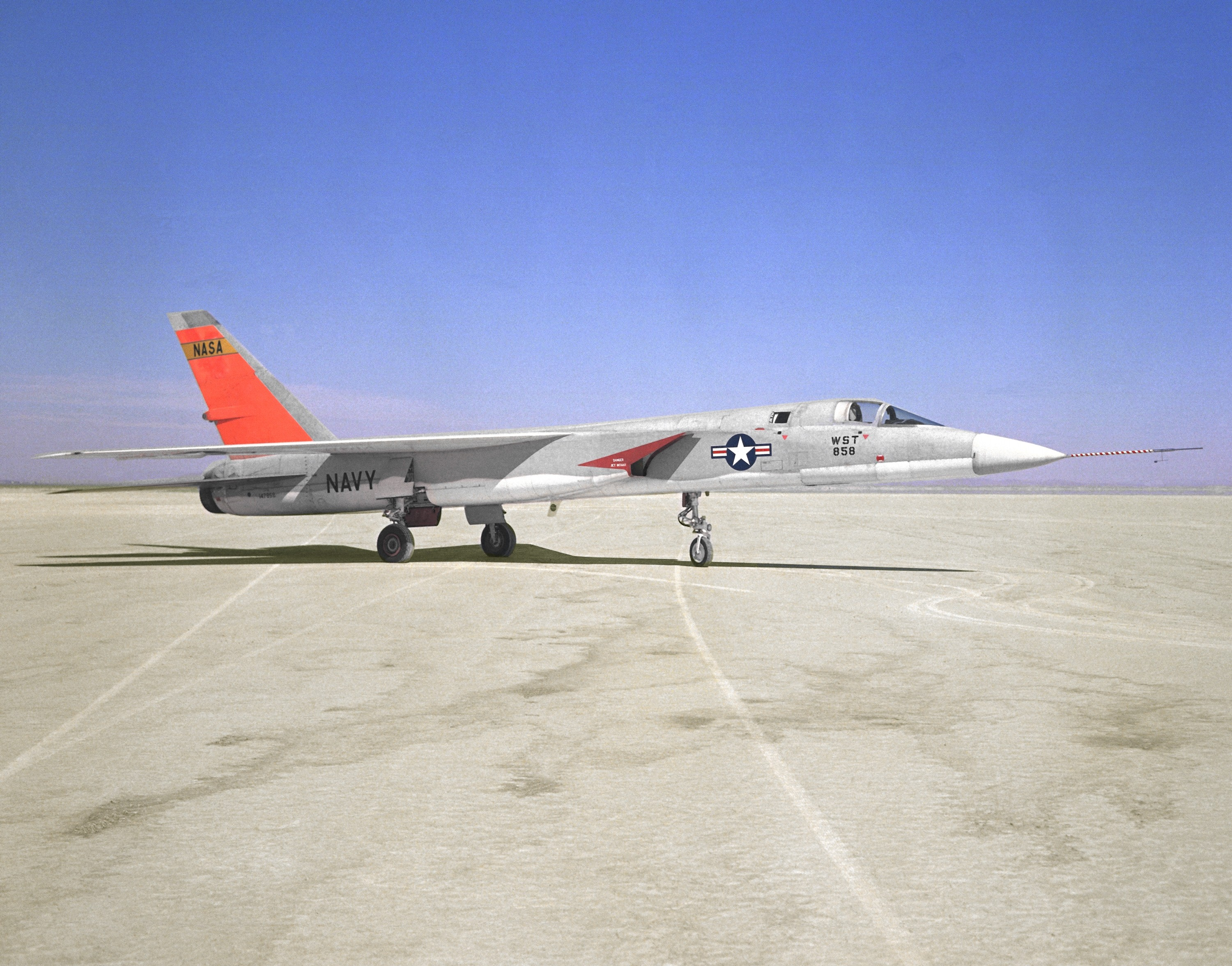 A North American Aviation A3J-1 Vigilante (Navy serial number 147858/NASA tail number 858) arrived from the Naval Air Test Center, Patuxent River (Maryland, USA), on 19 December 1962 at the NASA Flight Research Center (now Armstrong Flight Research Center, Edwards, California). The Center flew the A3J-1 in a year-long series of flights in support of the U.S. supersonic transport program. The Center flew the aircraft to determine the let-down and approach conditions of a supersonic transport flying into a dense air traffic network. These flights followed two flight plans that were based upon earlier NASA Flight Research Center studies, one for a variable-sweep wing configuration and the other for a delta-wing configuration. NASA Flight Research Center test pilot William H. Dana made approximately 21 flights along federal airways that entered Los Angeles. With the completion of the research flights, the Center sent the A3J-1 back to the Navy on 20 December 1963.